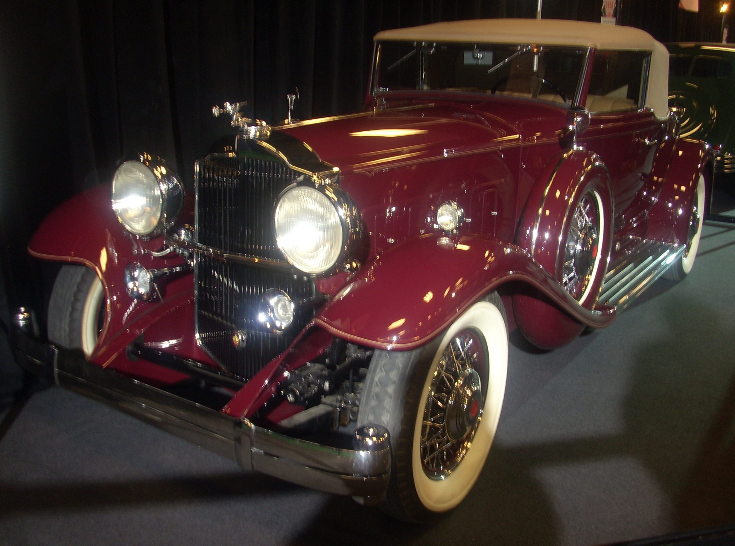 1931 Packard 833 photographed in Montreal, Quebec, Canada at the 2010 Montreal International Auto Show.